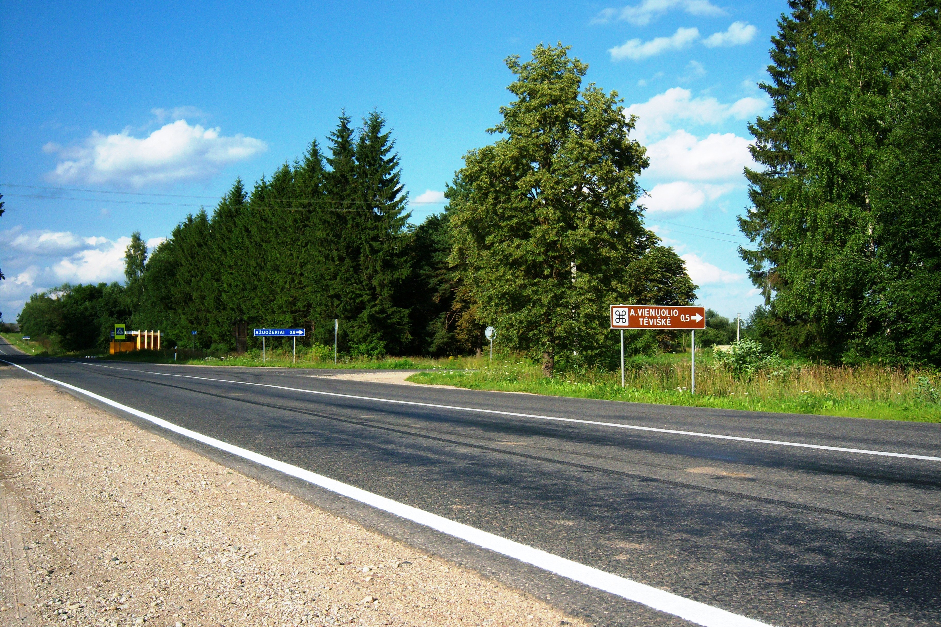 KK120. Ažuožeriai (Anykščiai District)